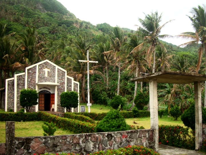 A picture of San Lorenzo Ruiz Chapel in Imnajbu, Batanes